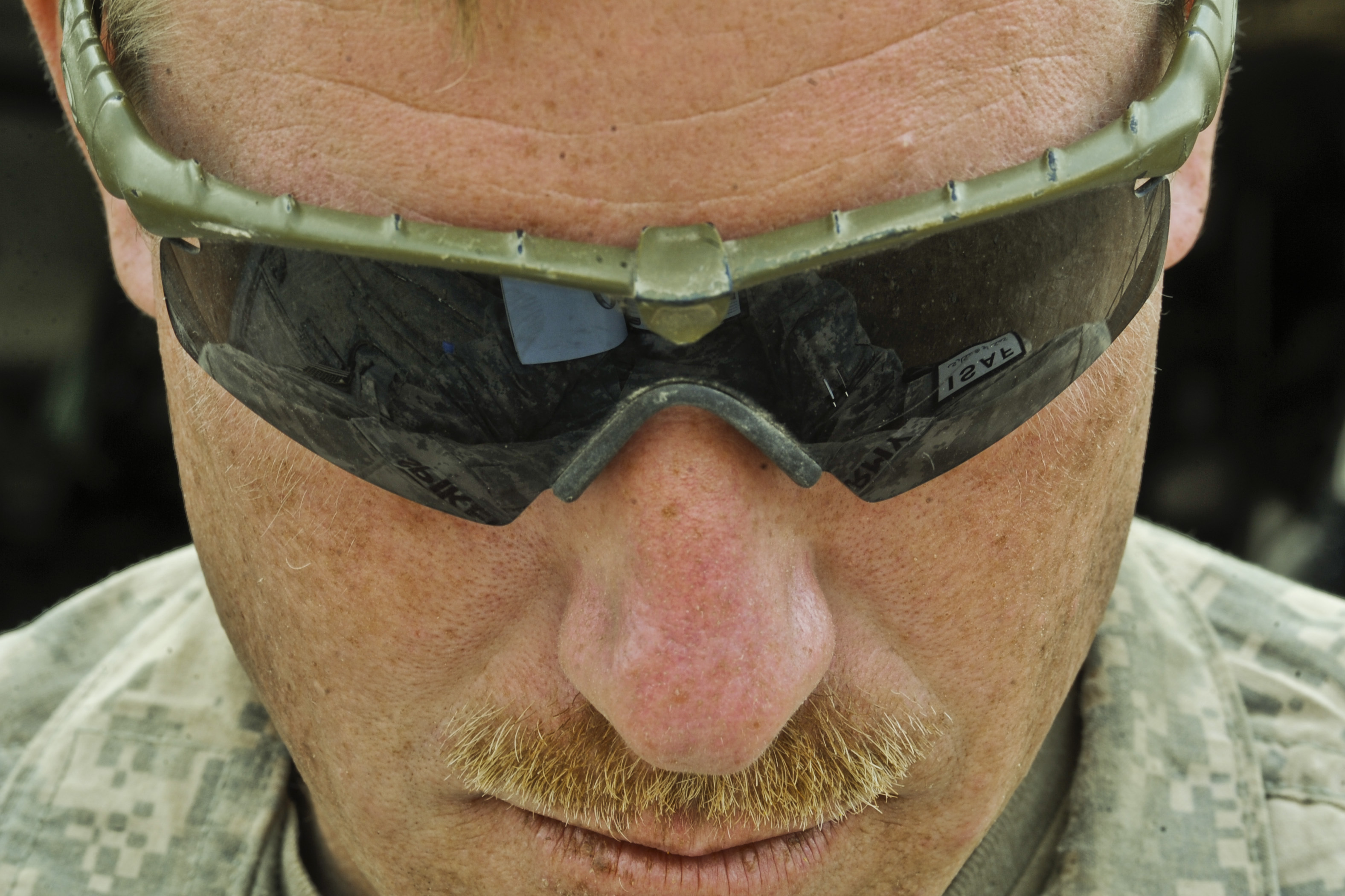 U.S. Sgt. 1st Class James Spiker, of Alpha Company, 1st Battalion, 17th Infantry Regiment, reads a magazine during downtime at Operation Helmand Spider in the Badula Qulp section of the Helmand province of Afghanistan Feb. 22. (U.S. Air Force photo/Tech. Sgt. Efren Lopez)